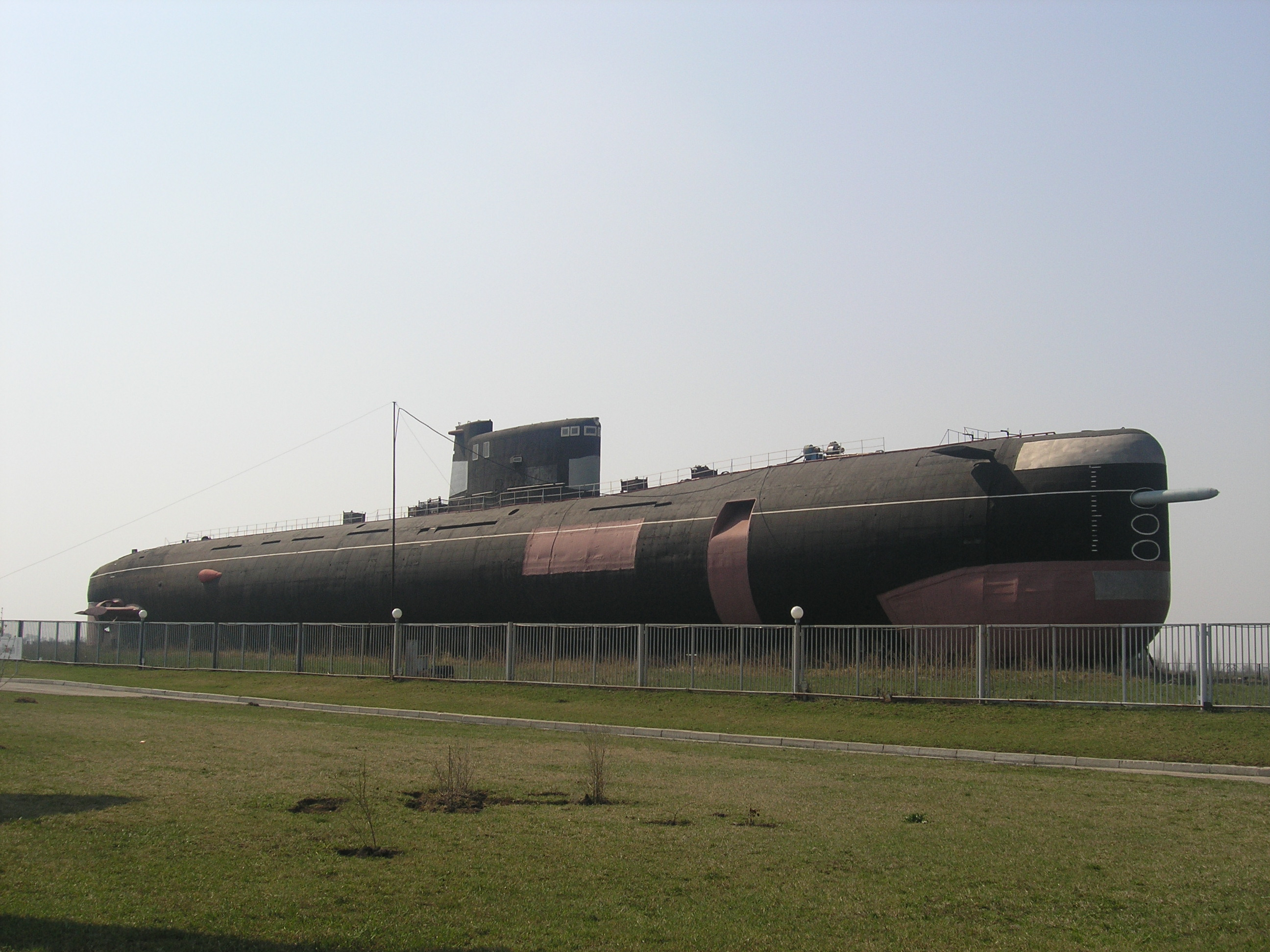 B-307 (1977), a former Soviet Tango-class, long-range diesel-electric attack submarine (Project 641B), which was decommissioned in 2002, is on display at the Auto VAZ Technical Museum in Togliatti, Samara region, Russia.